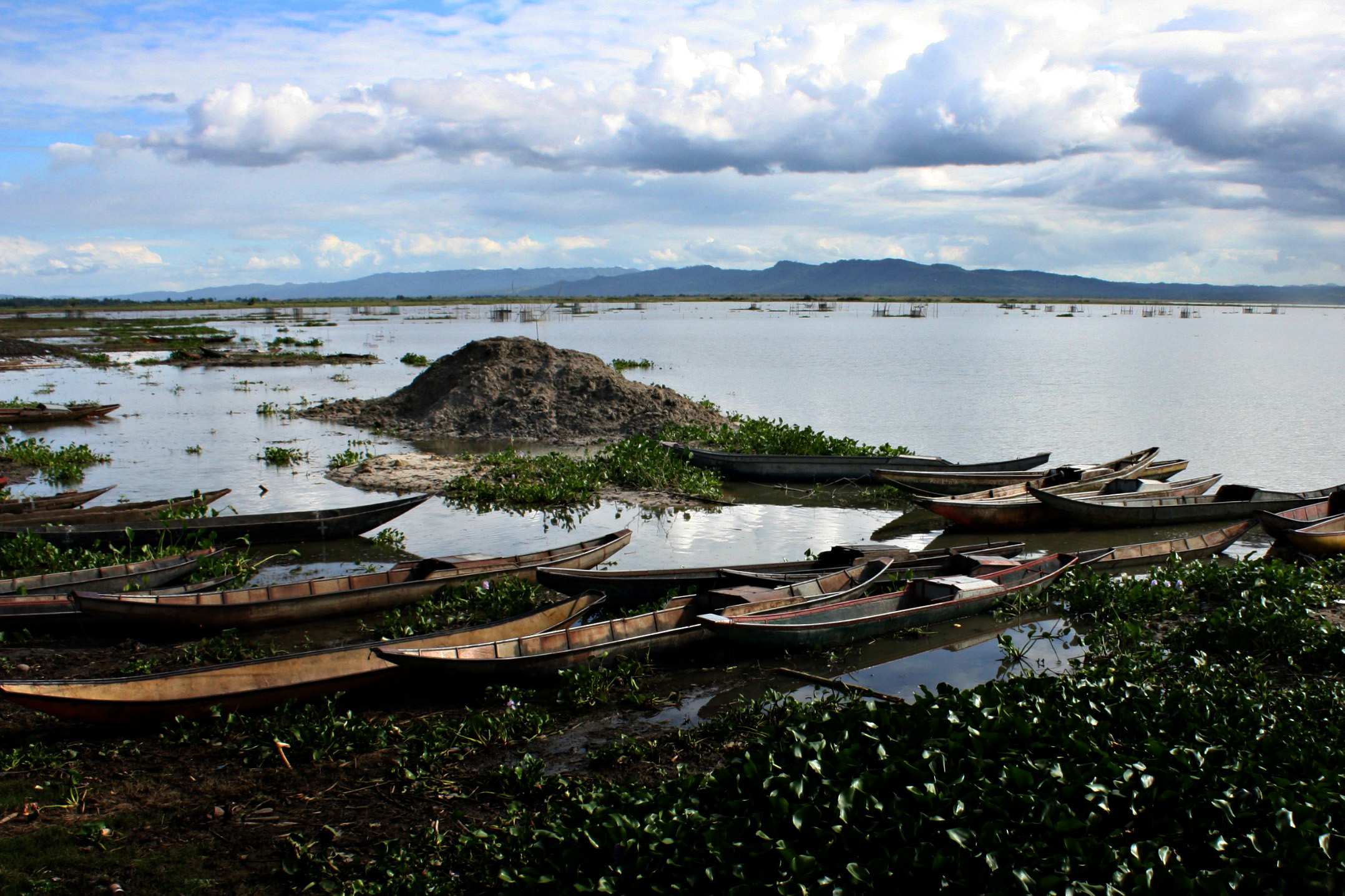 Idle boats on the shores of Lake Bato